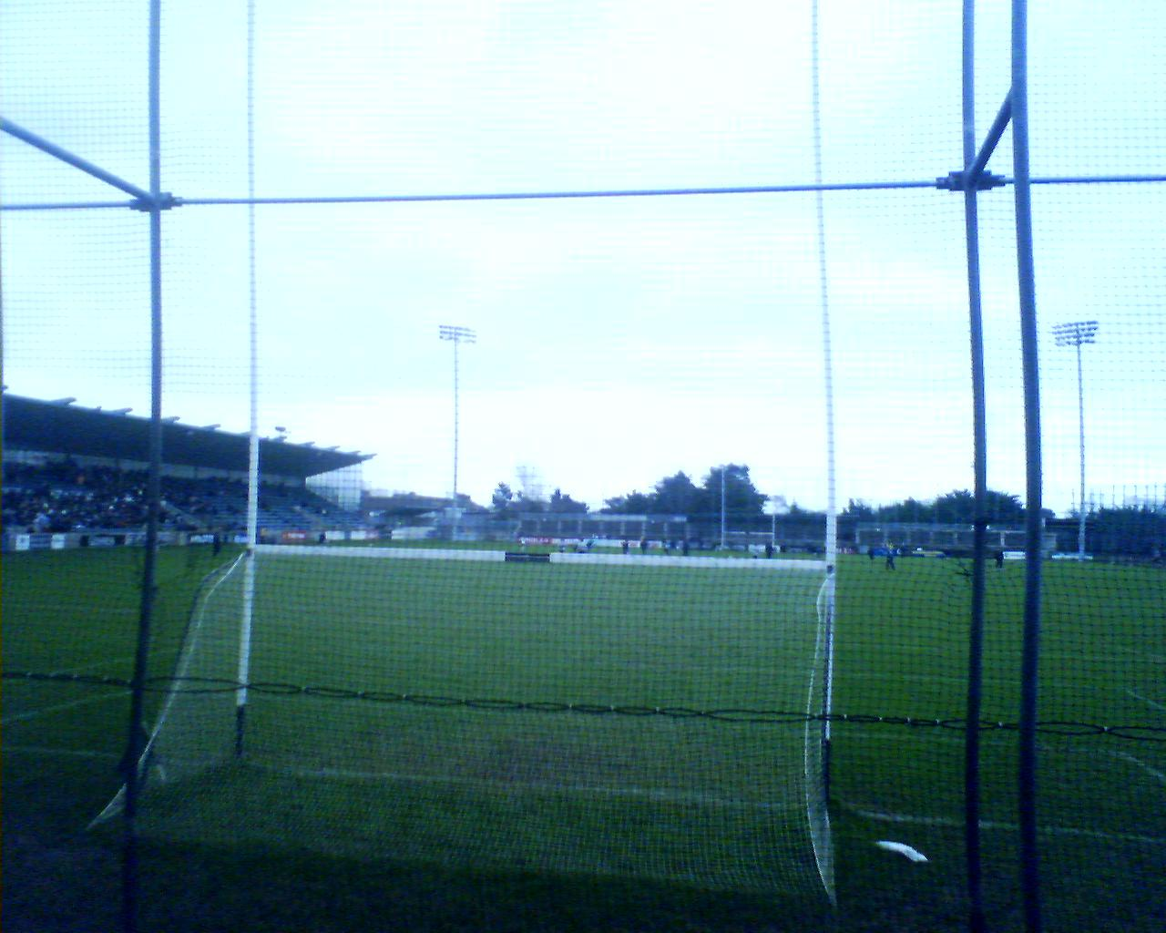 Parnell Park, created by Fenian Swine.